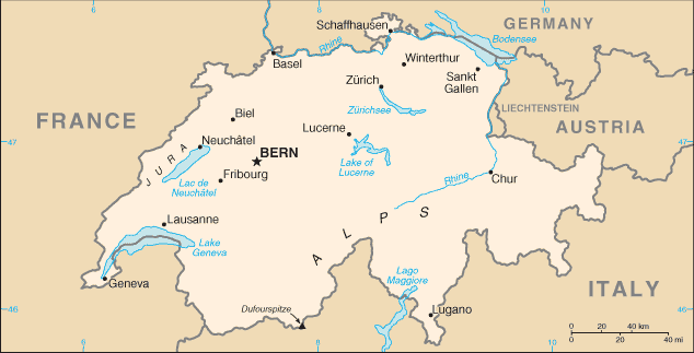 Map of Switzerland, showing major cities.